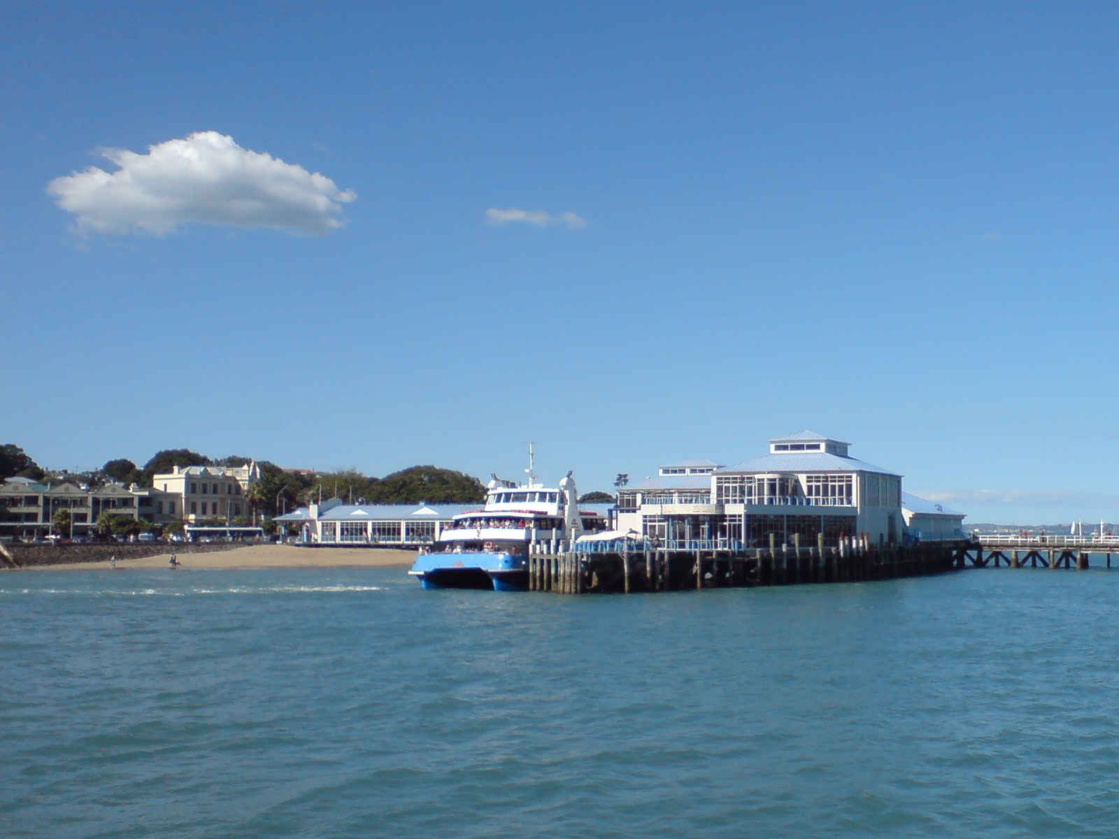 The Kea ferry seen at the Devonport Wharf in Devonport, North Shore City, New Zealand. Photo taken from another ferry about to arrive.